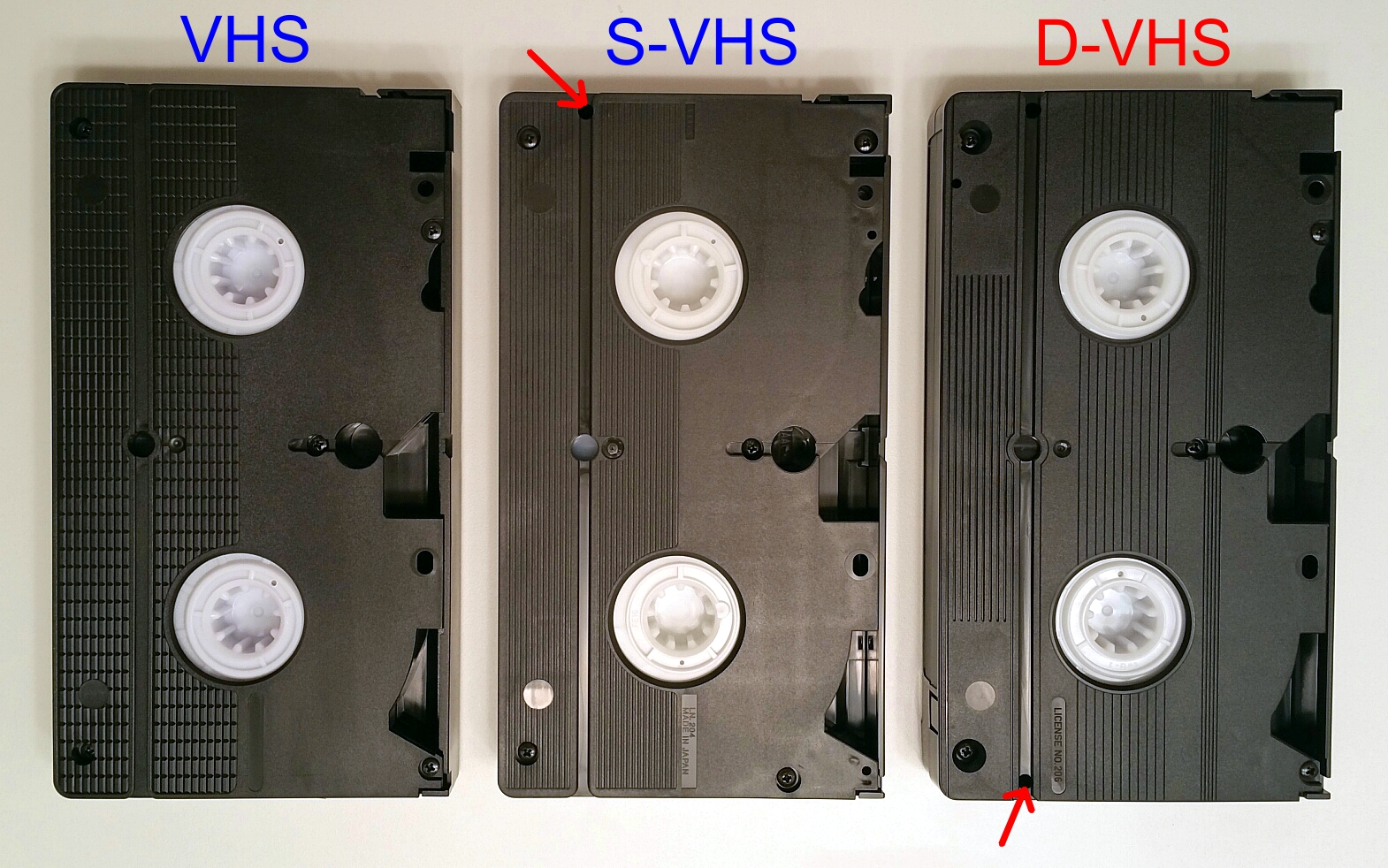 compare of identification features between video cassette tapes